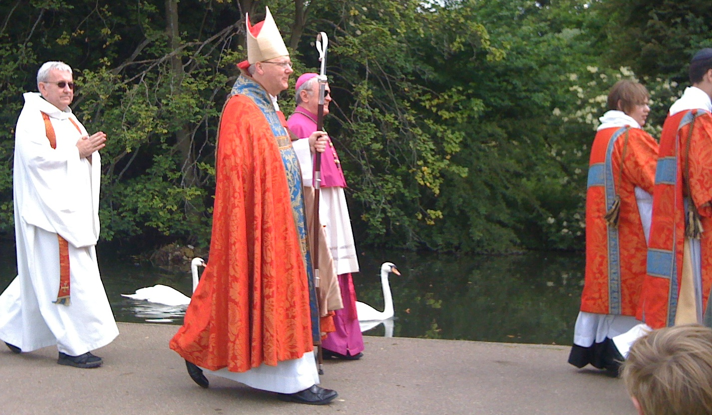 Bishop Alan Smith (the Anglican Bishop of St Albans, England) in procession to his cathedral in June 2010 for the St Alban Festival Mass. He is preceded by his Deacon and Sub-Deacon, followed by his Domestic Chaplain, and accompanied by an ecumenical representative of the Roman Catholic Church.